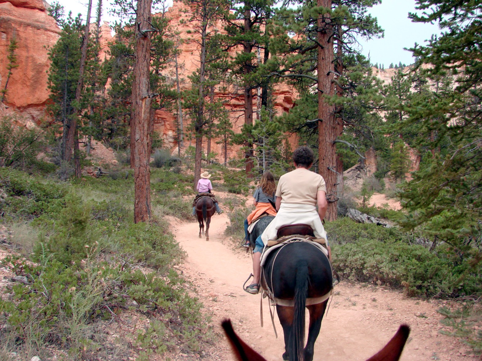 (1 of a 12-picture set) At the bottom we found ourselves in a small forest of pine. The smell was amazing, and the only sound was the clip clop of the houses hooves. At this point we began to think the worst was over. HA! In the spring this scene would include a rushing creek.